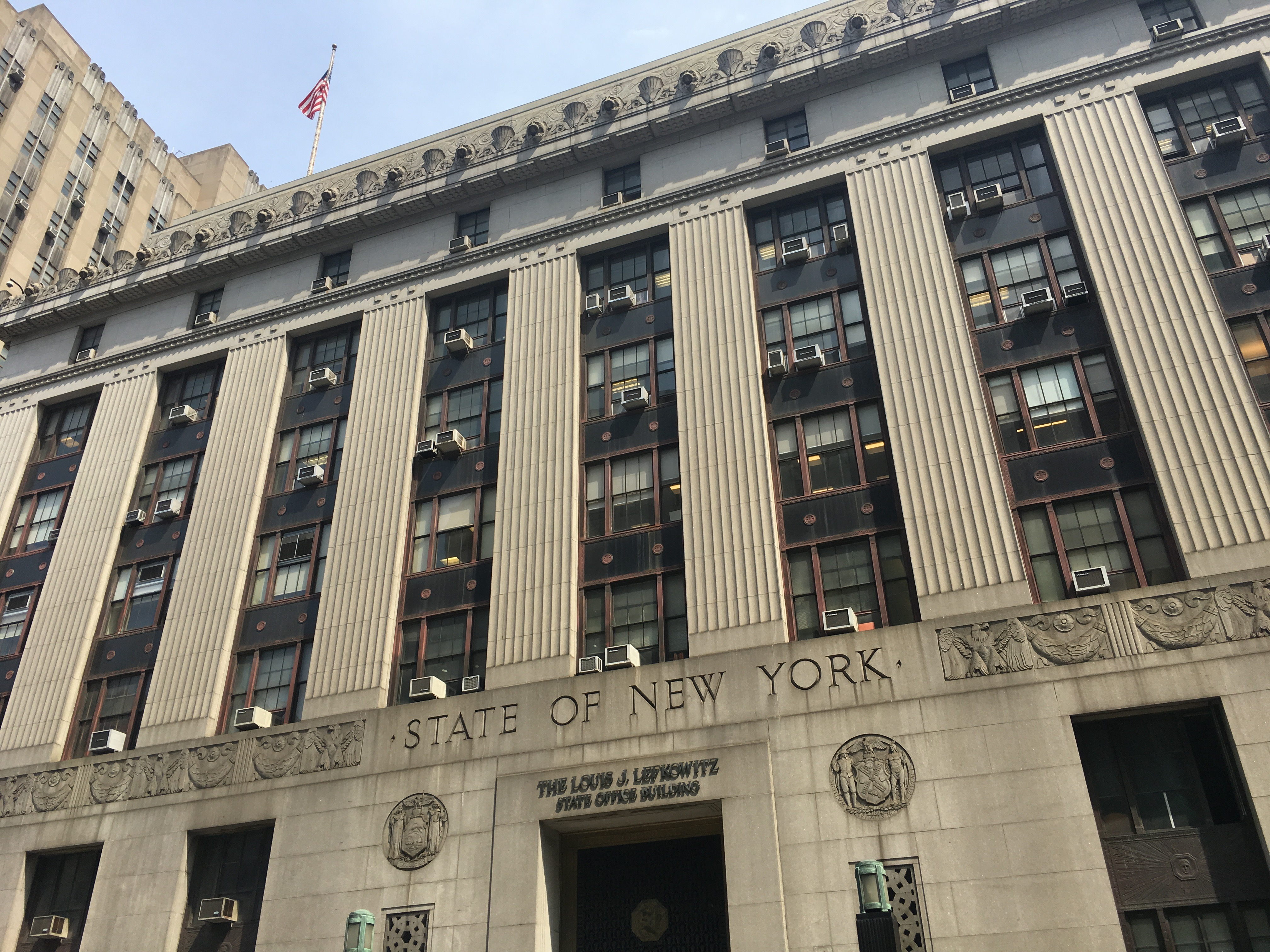 Facade of the Louis J. Lefkowitz Building, an Egyptian Deco structure that forms the Northeastern boundary of Lower Manhattan's Foley Square Civic Center in New York City.